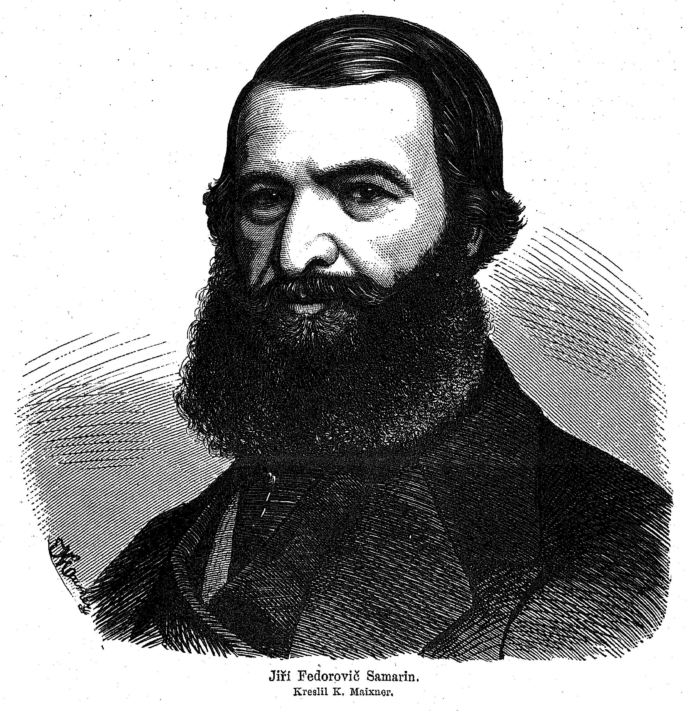 Portrait of Yuri Fedorovich Samarin (Юрий Фёдорович Самарин, 1819 - 1876), Russian historian.